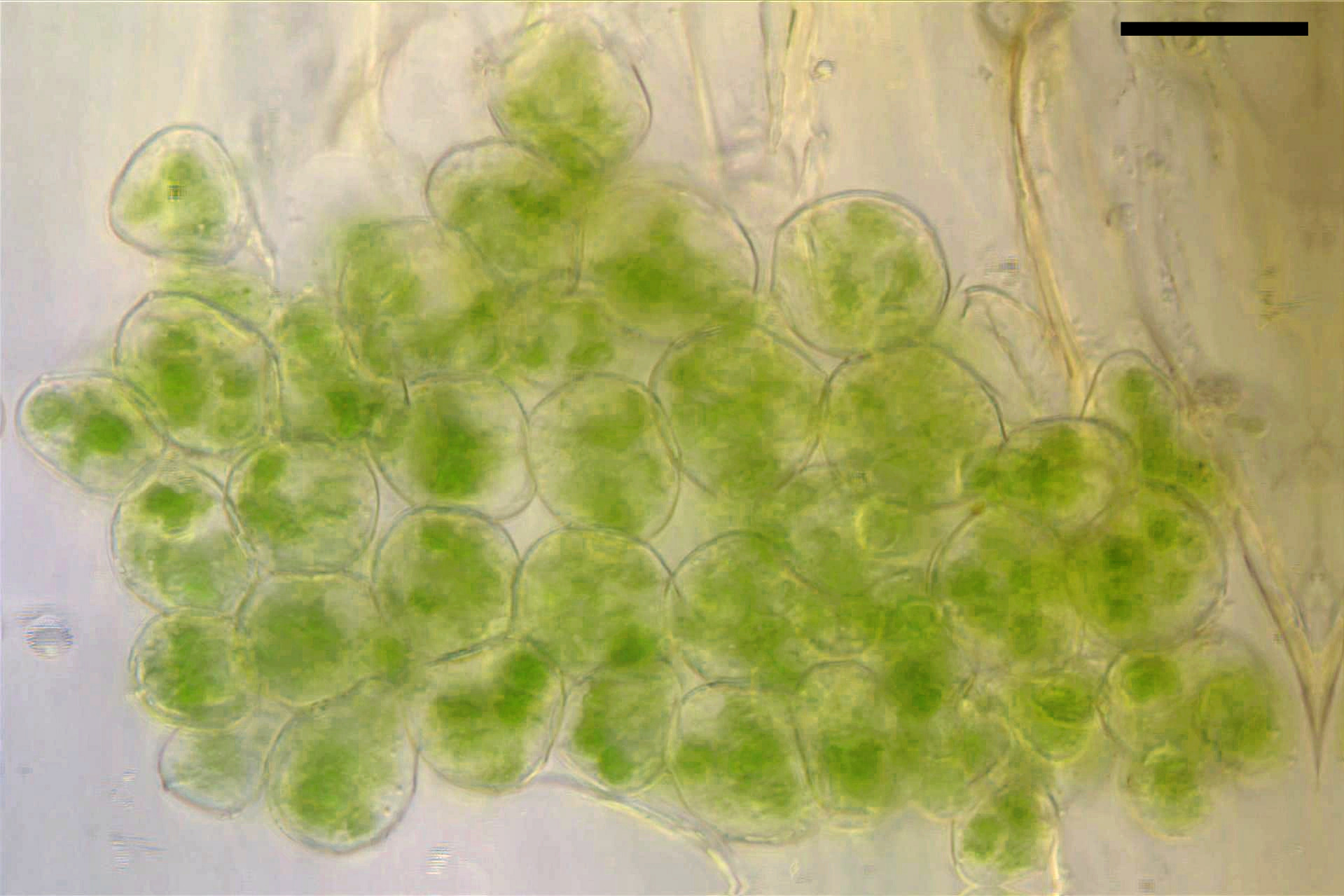 Parenchyma cells in a liverwort thallus, with chloroplasts visible. True colour, with contrast/hue alterations in GIMP. Scale bar: 25 μm